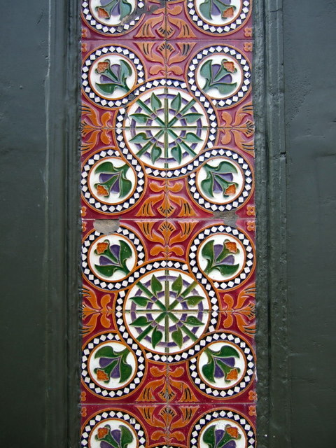 Tiles, Hampstead. Attractive tiling on the facade of The Flask, see 521664